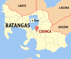 Map of Batangas showing the location of Cuenca